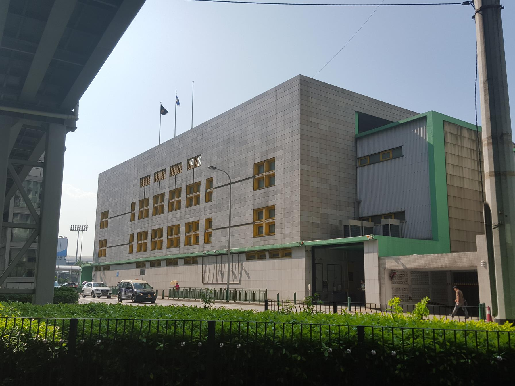 Macau Tactical Unit Building